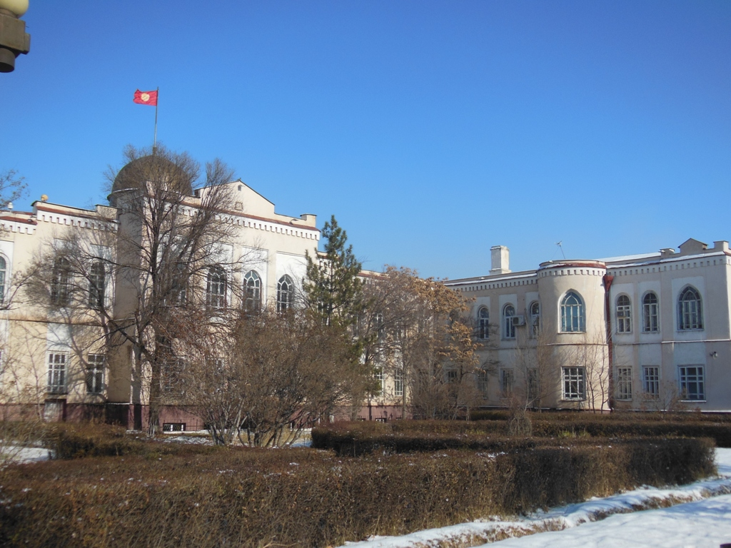 House of the Central Executive committee of Kirghiz ASSR